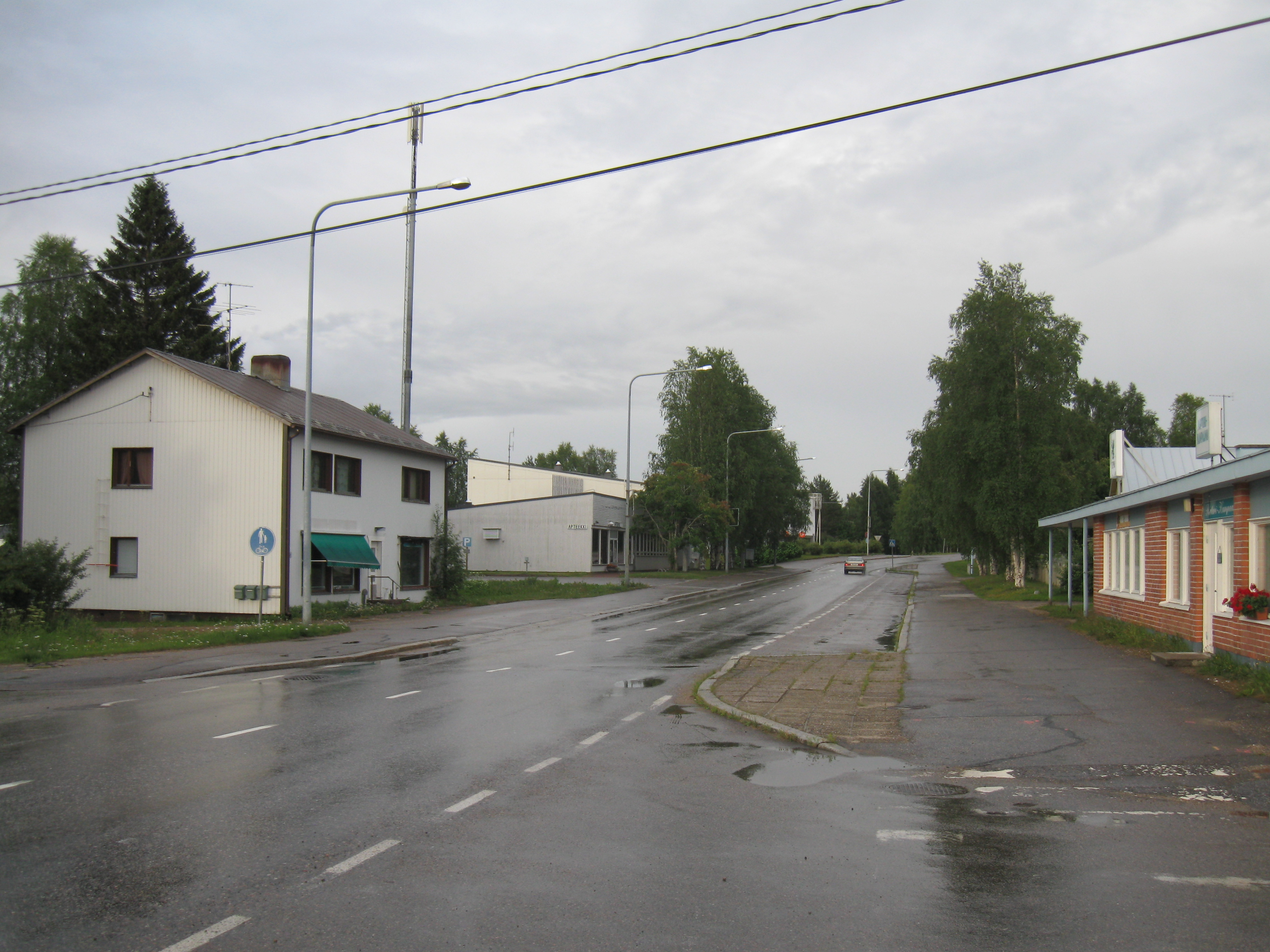 Aholantie (connecting road 8881) at the centre of Ristijärvi, Finland, towards East.